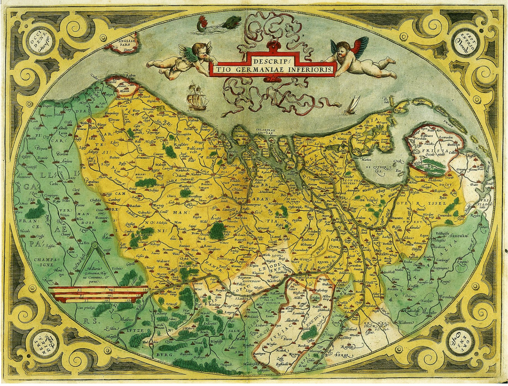 Descriptio Germaniae inferioris, on the backside of the map "Niderlandt"